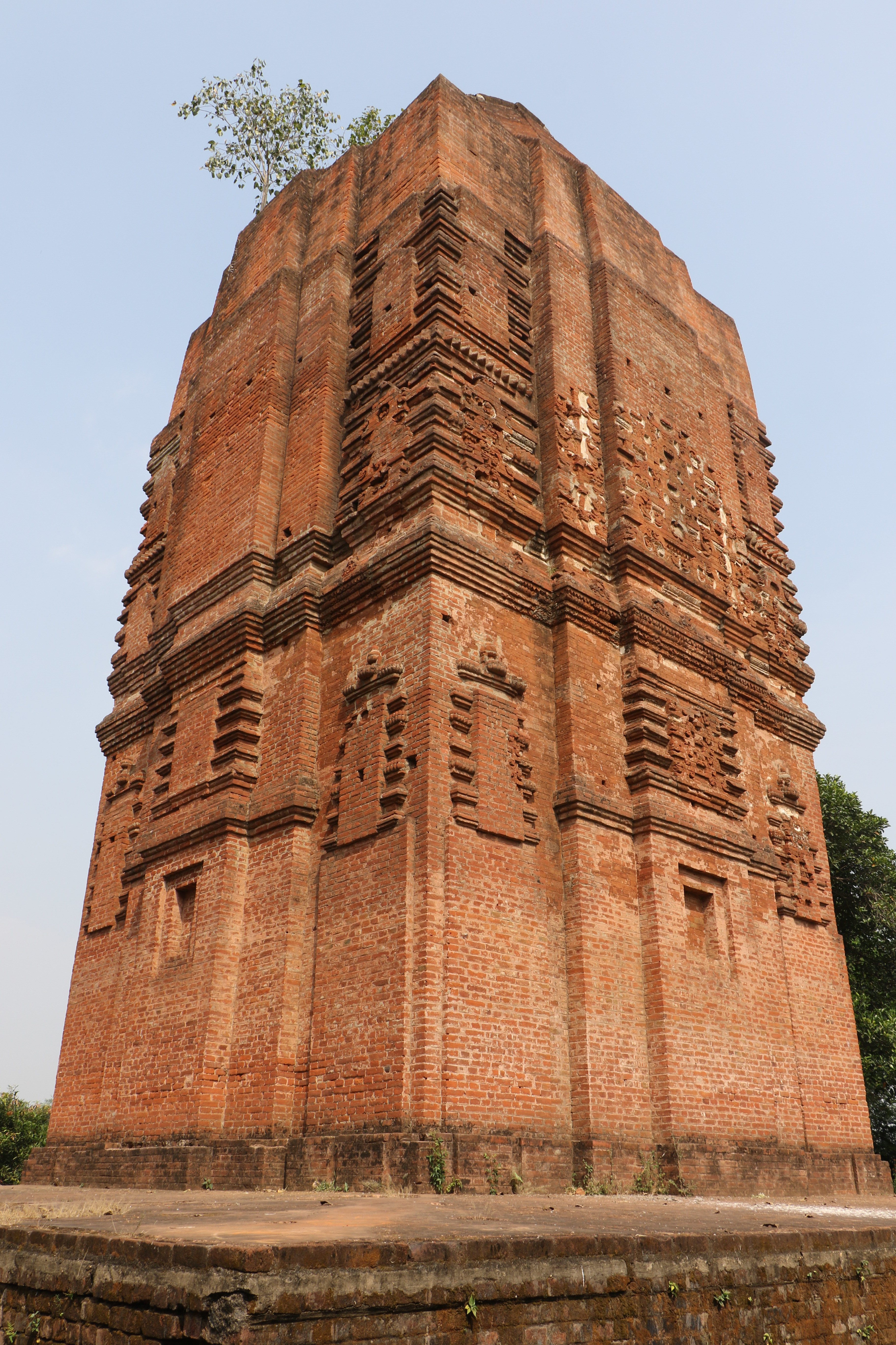 Found in a dilapidated condition, this brick built rekha deul is one of the best specimen of temple architecture of Bankura. Though a substantial portion of the temple was rebuild at the time of conservation, the temple still retains some of the early stucco work on the decorated bricks. Sonatapal@Bankura@WestBengal@India (As written in the board by ASI - WB)